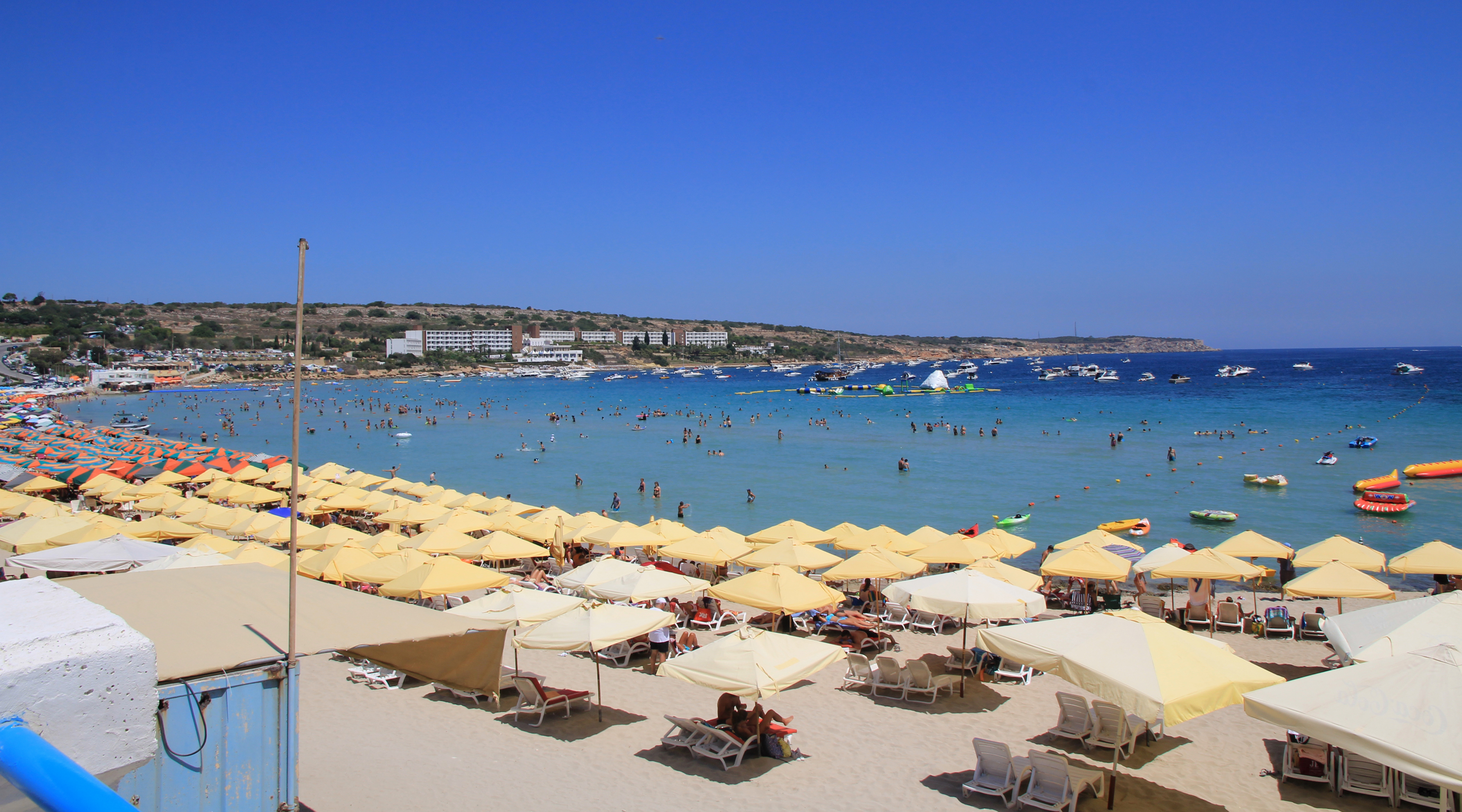 View on beach in Mellieħa Bay and its northern part, Malta